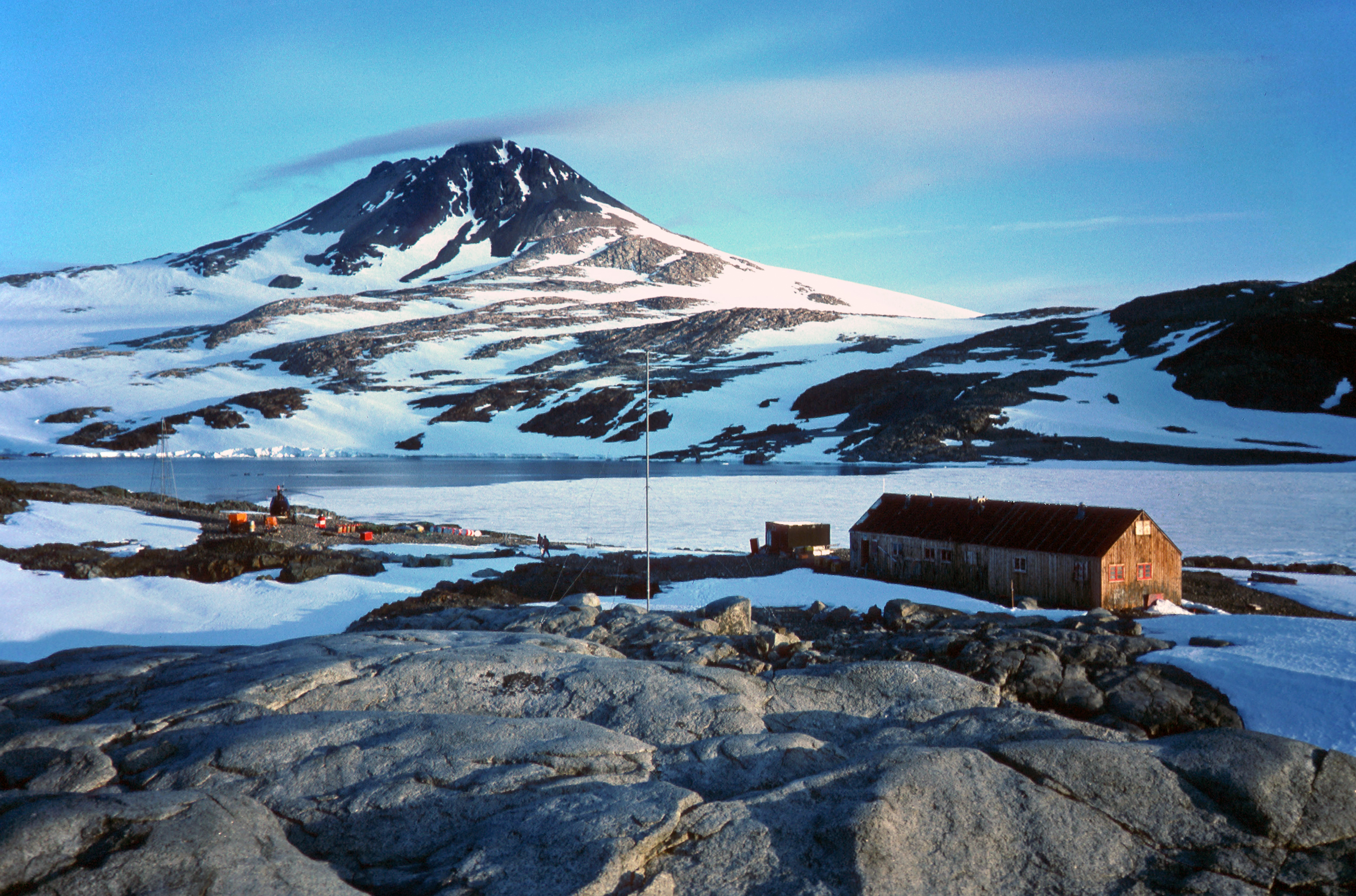 Base Y (Marguerite Bay) on Horseshoe Island. In the background Mt Searle with capping cloud